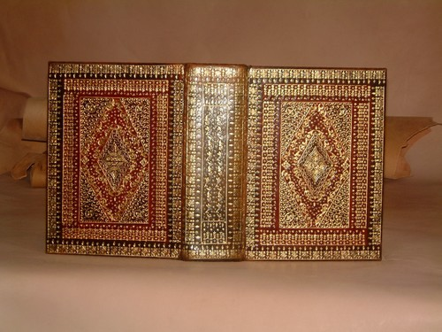 Restoration, hand binding of a 'Geneva' Bible, 1603, bound in the style of the Royal Binder of Elizabeth I. Full restoration to the pages, repairing page tears, removing ink stains, re-placing missing text and re-sewn in the style of the period. Re-bound in materials and hand gilt sympathetic to the original by Paul Tronson a Master Book Binder who specializes in traditional bookbinding and book restoration in the ancient styles of the great masters, with materials that cannot be bought but are hand made using their exacting technique and formulae.